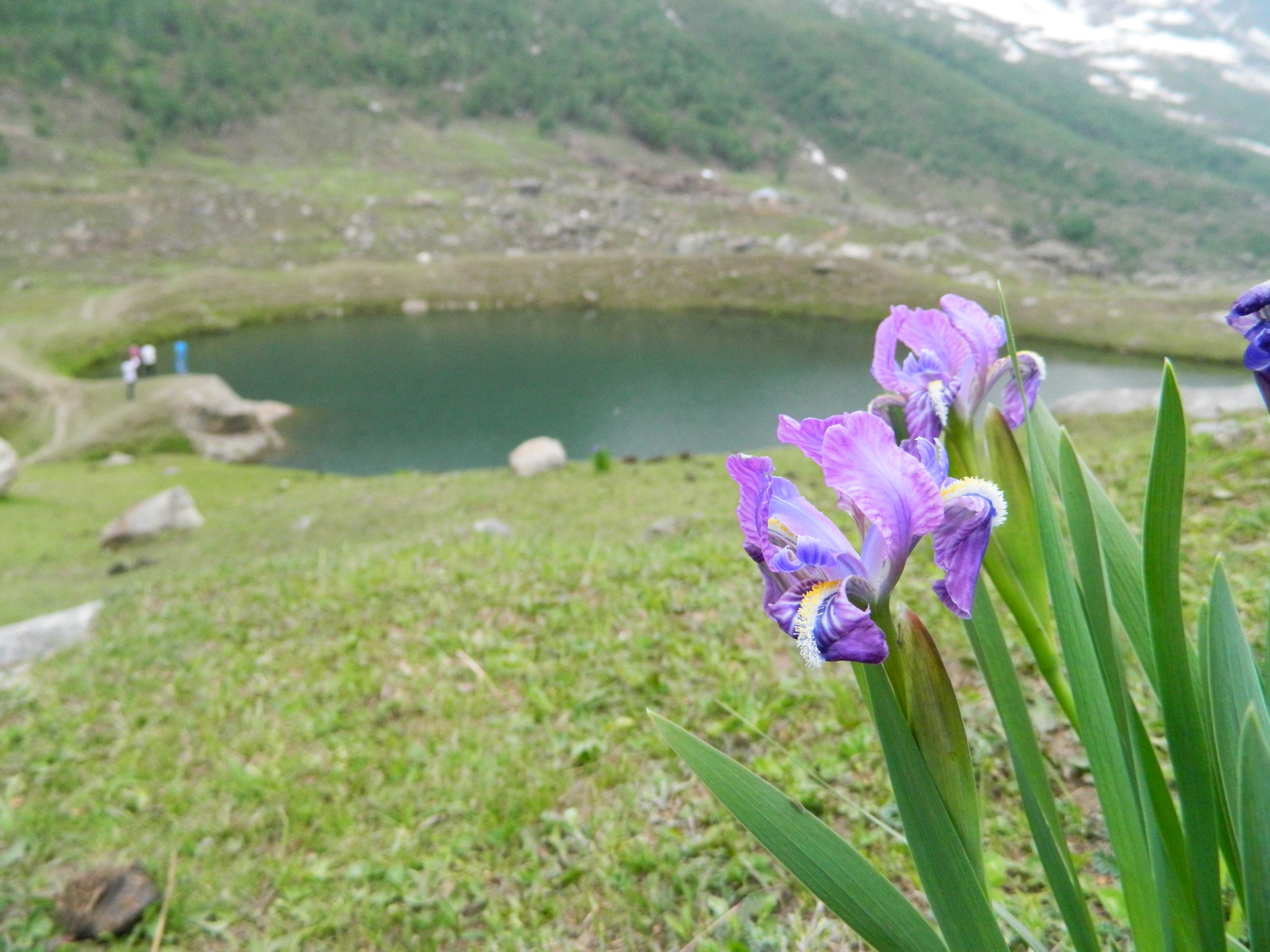 flowers grown in Shounter valley in Azad Kashmir